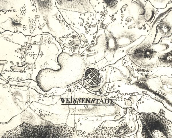 Pond of the Bavarian town Weißenstadt around 1788